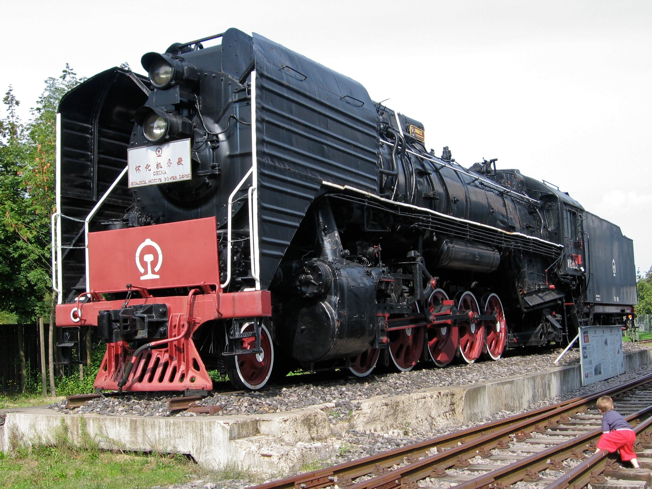 China Railways QJ steam locomotive at Marcin Technik Museum Speyer 前进型蒸汽机车